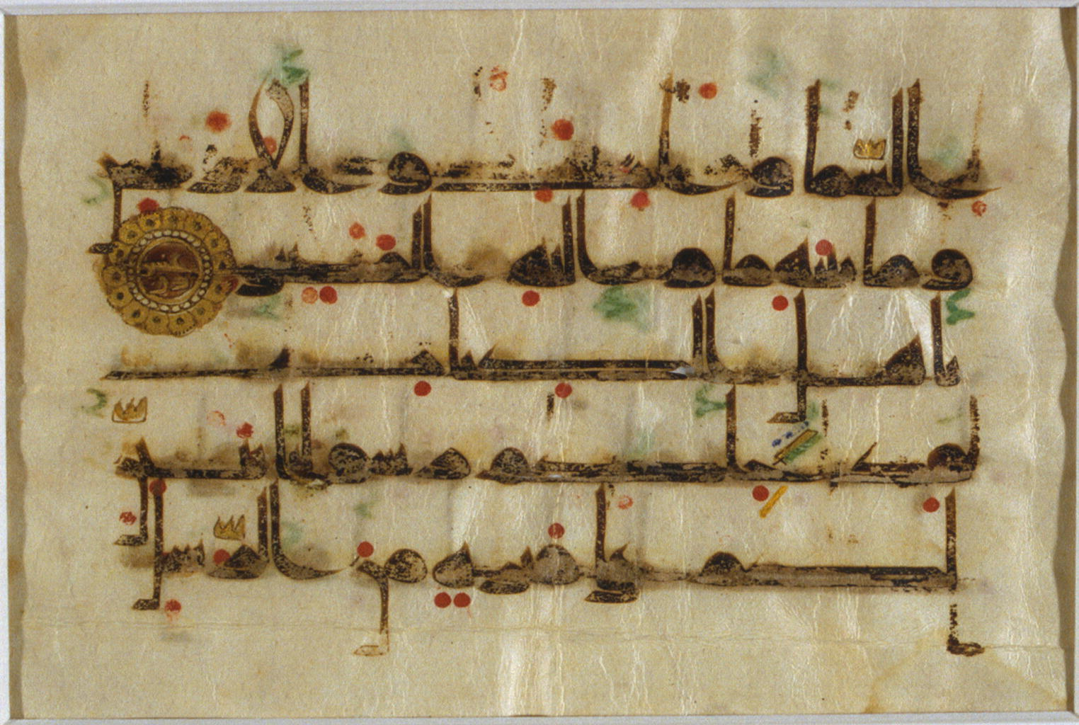 The beginning of verse 19 from the 5th chapter of the Qur'an entitled al-Ma'idah (The Table). The text is exectued in a Kufi script similar to style D.Vb, at 5 lines per page in horizontal format. This particular script is differentiated by the upper stroke of the letter kaf (k) which slants to the right before turning to the left. The text is executed in black ink, while red dots indicating vocalization may have been added later. Diacritical marks also appear to have been added subsequently: for example, glottal stops (hamza) are marked in green ink, while duplications of consonants (tashdid) are executed in gold ink.